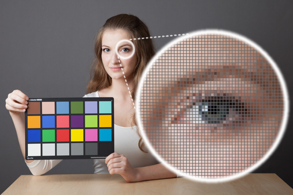 Schematic diagram of the Screen Door Effect. As the magnification increases, the distances between different pixels are becoming more and more obvious.